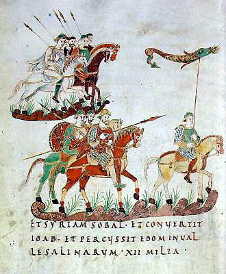 Joab leading the Hebrew cavalry against the Syrians (depicted as Carolingian-era Frankish cavalry), illustration of psalm 60 Text: ET SYRIAM SOBAL·ET CONVERTIT IOAB· ET PERCUSSIT EDOM IN VALLE SALINARUM·XII MILIA·